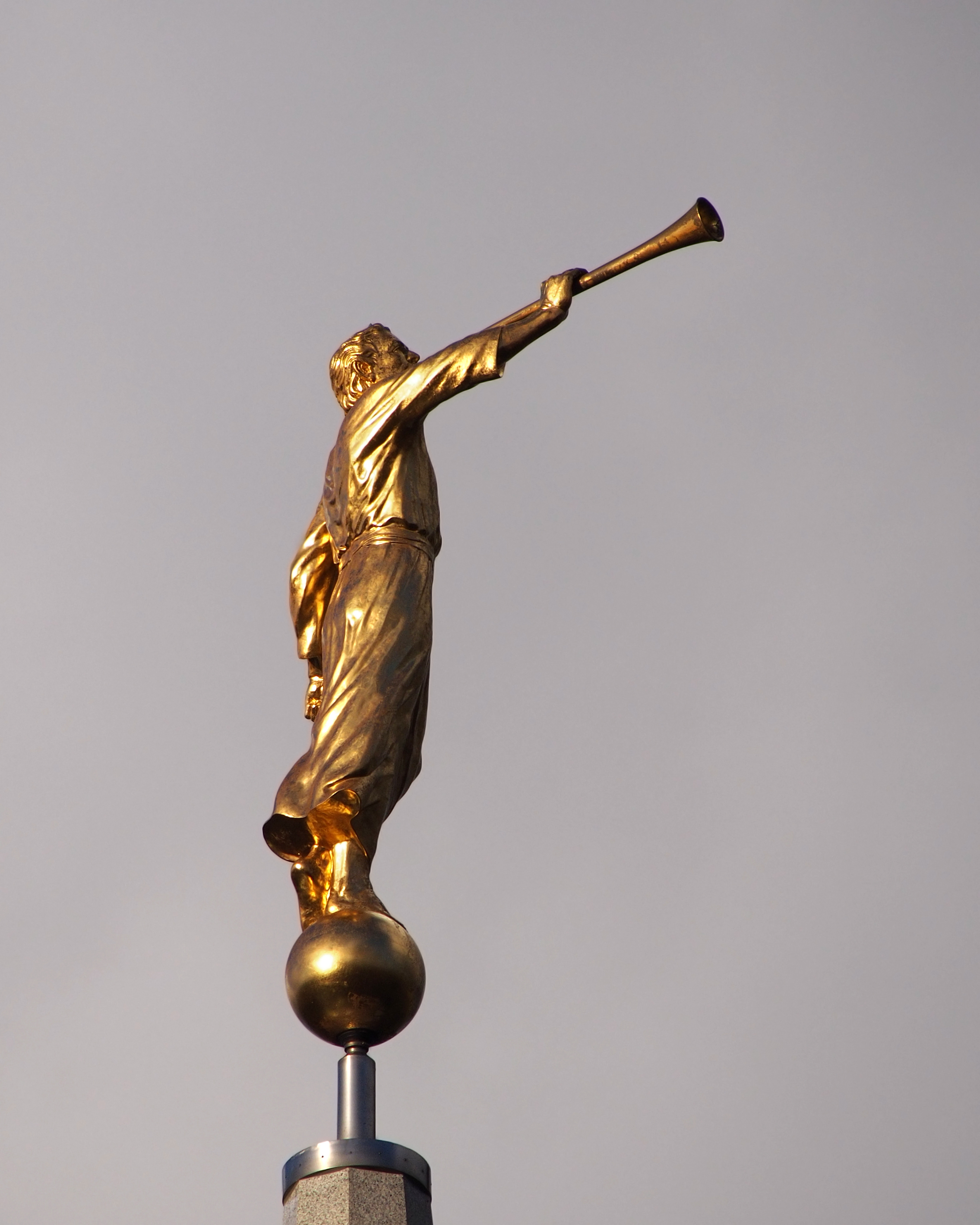 Figure atop the spire of the Preston England Temple, Chorley, UK